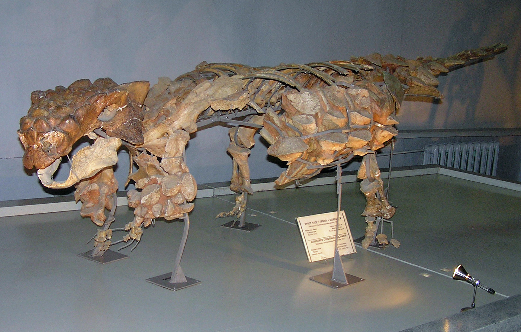 Mounted skeleton of Pinacosaurus specimen MPC 100/1305 with skull cast of Saichania. Central Museum of Mongolian Dinosaurs.